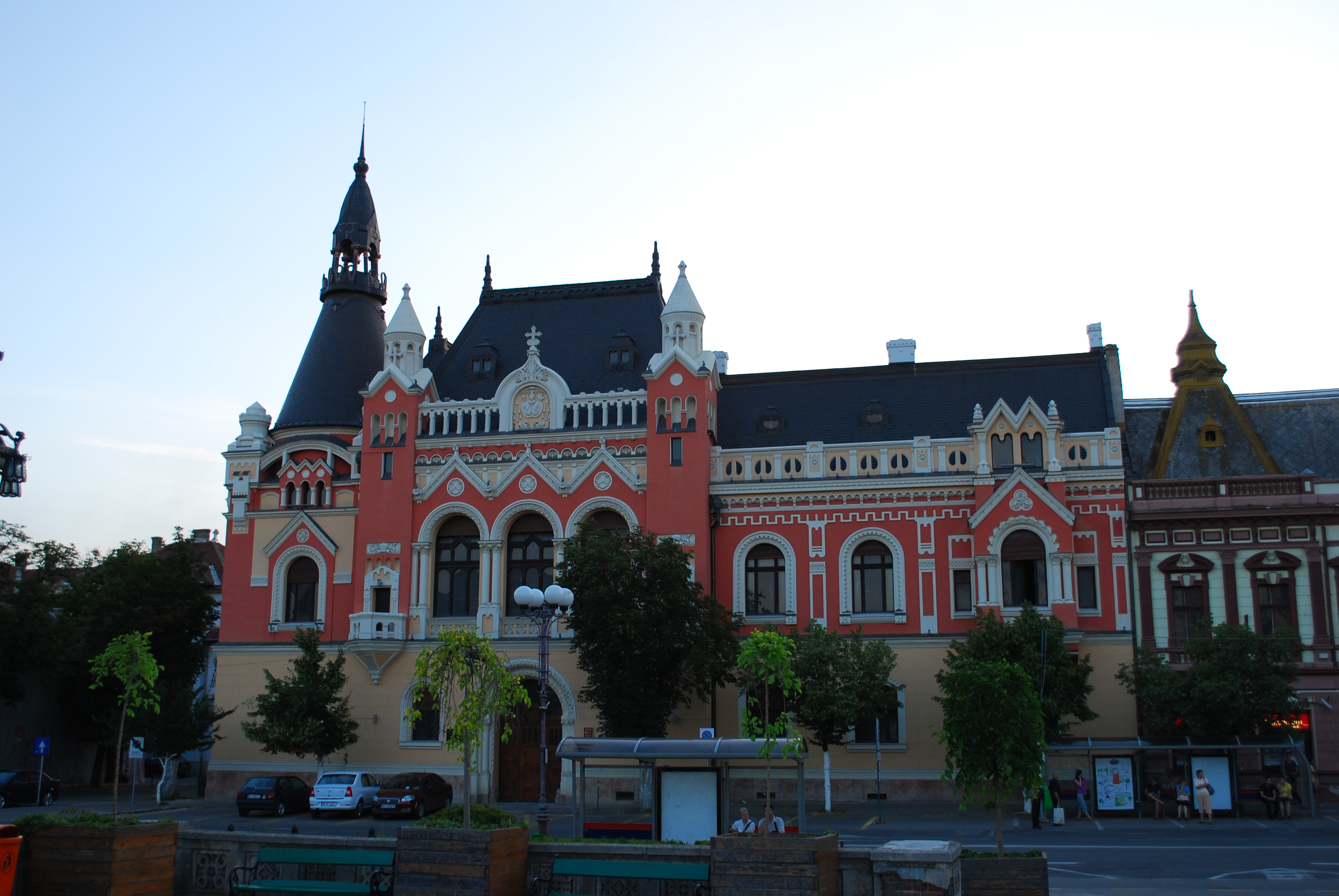 The Greek Catholic bishopric palace in Oradea, RomaniaRomână: Palatul Episcopiei greco-catolice din Oradea, România